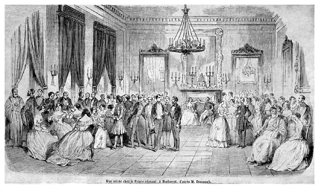 Reception in the Royal Palace of Bucharest honoring Prince Albert of Prussia in 1843, wood engraving 13.5x23.5cm